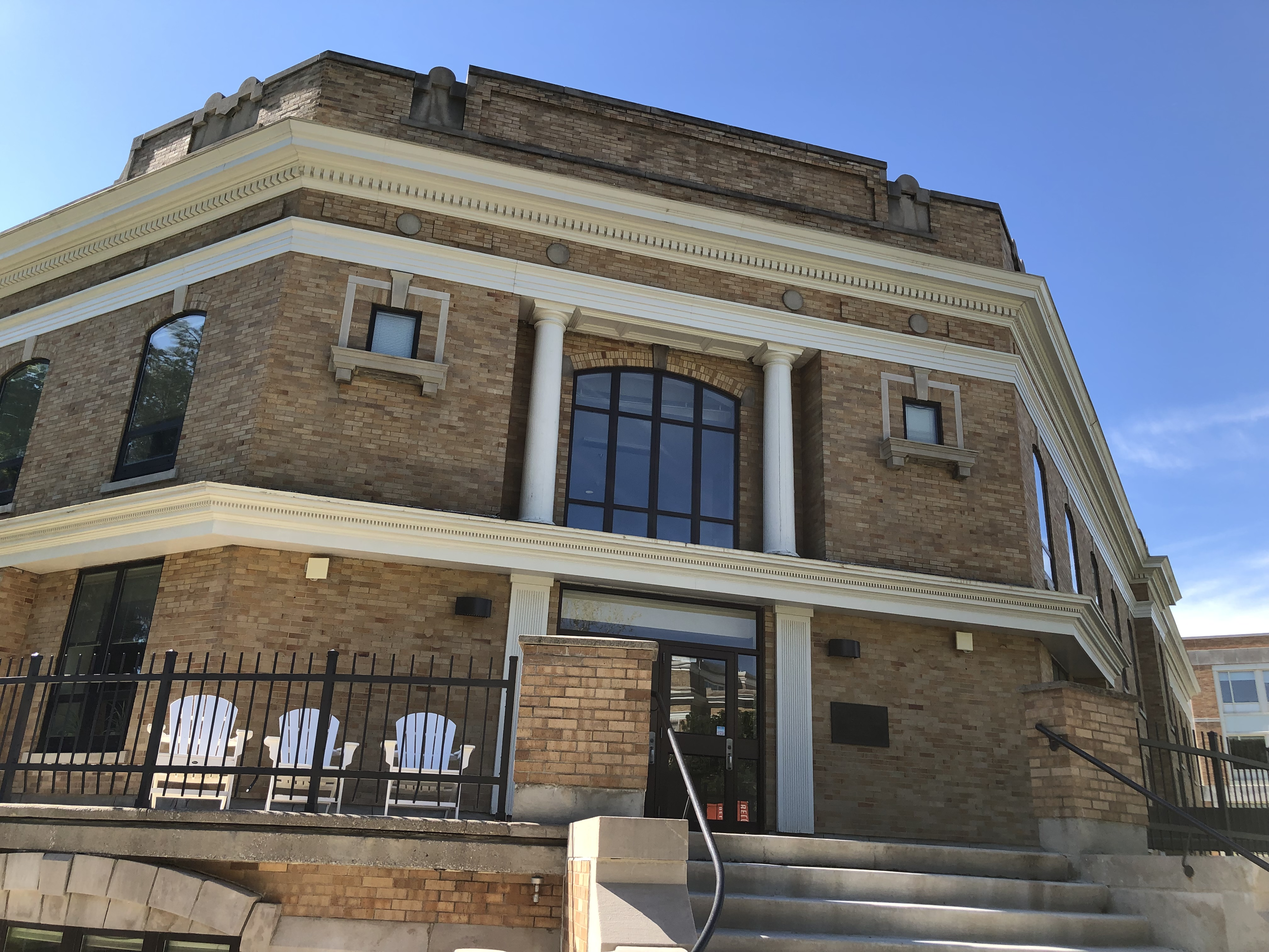 Williams Hall at BGSU